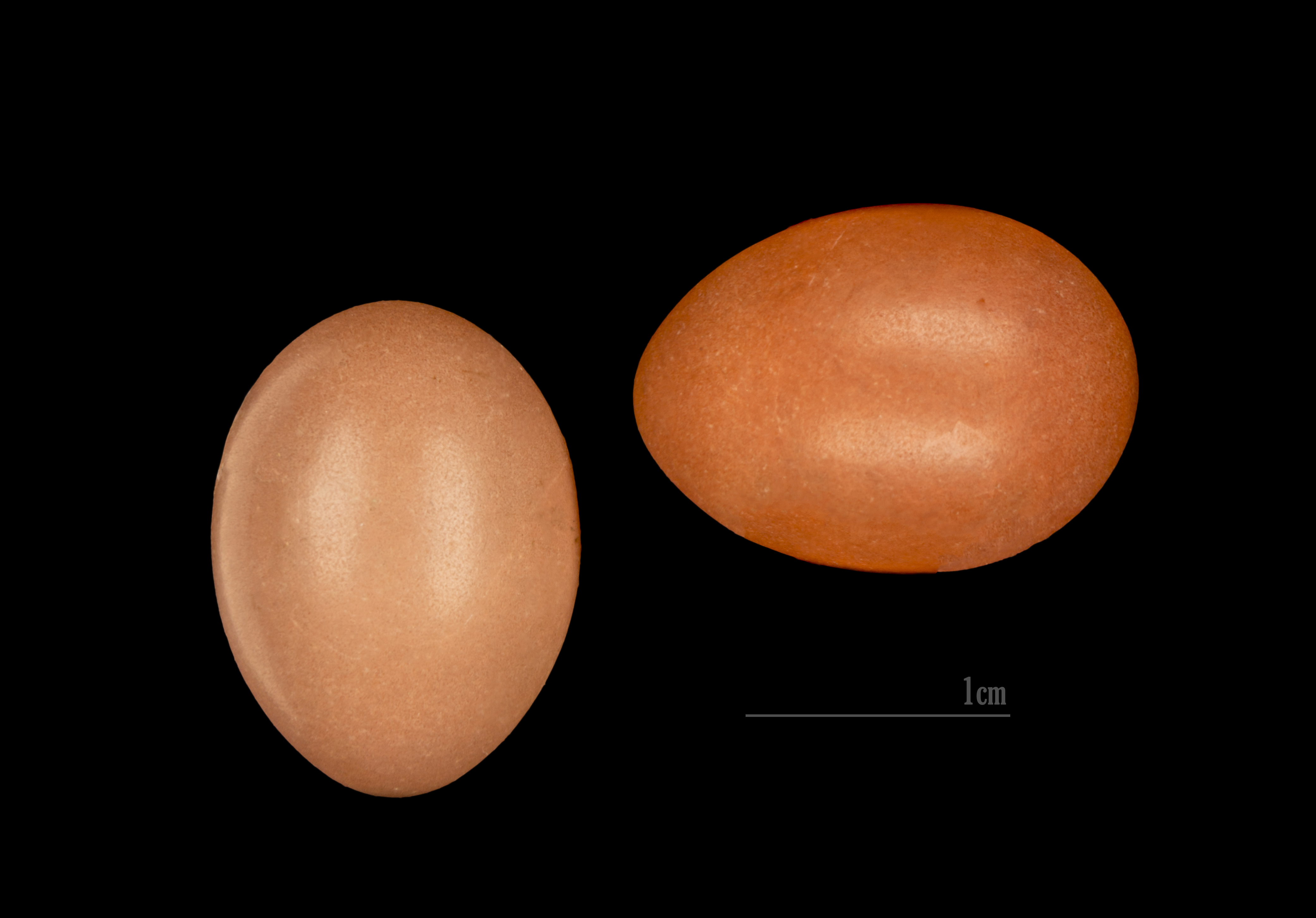 Egg of Cetti's Warbler. Collection of René de Naurois /Jacques Perrin de Brichambaut.